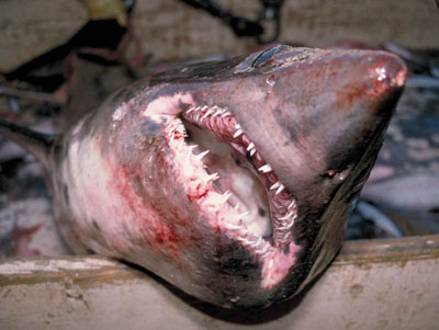 Head of a salmon shark (Lamna ditropis)